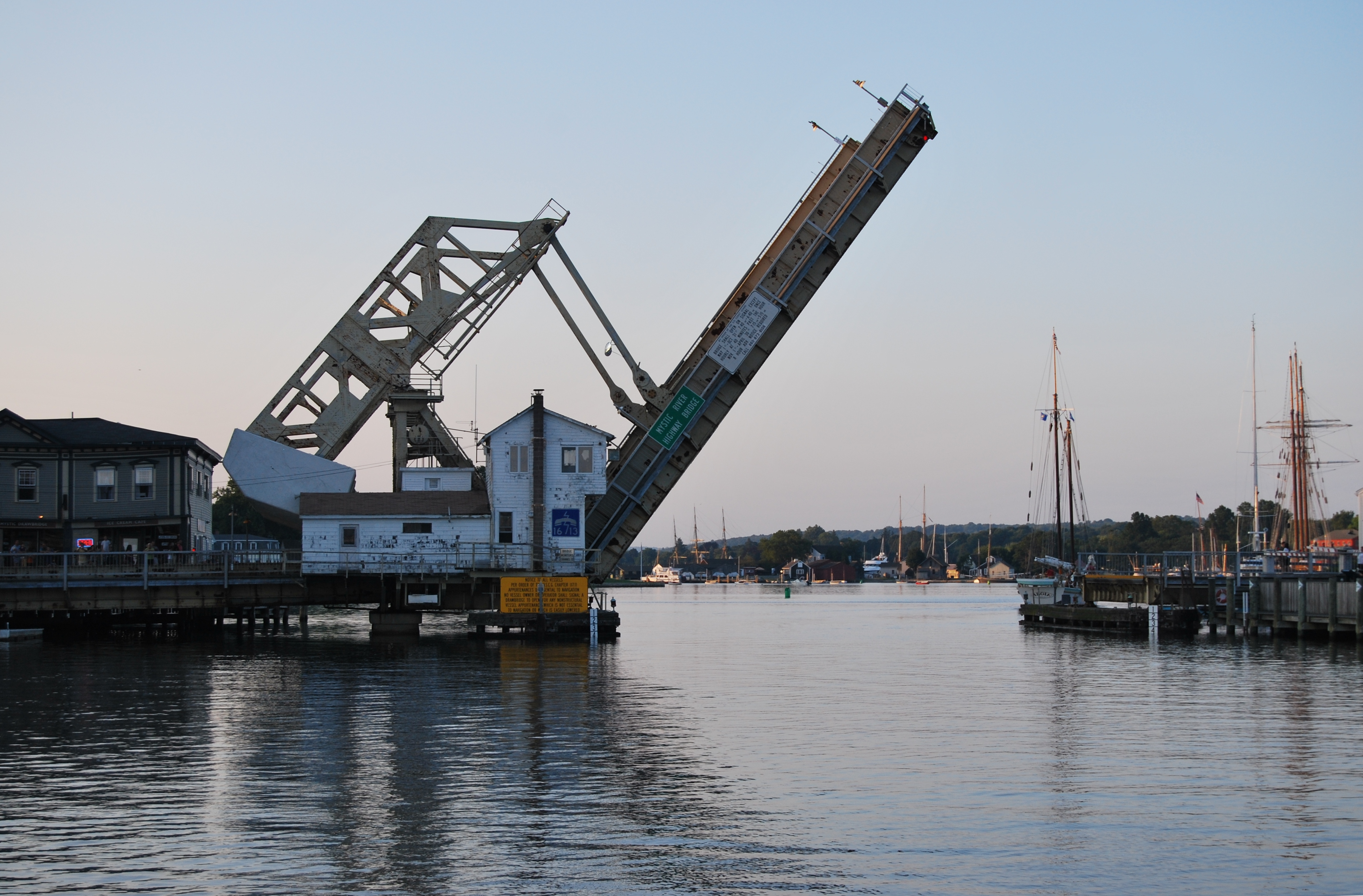 The Mystic River Bascule Bridge closing after opening to allow a schooner to pass through